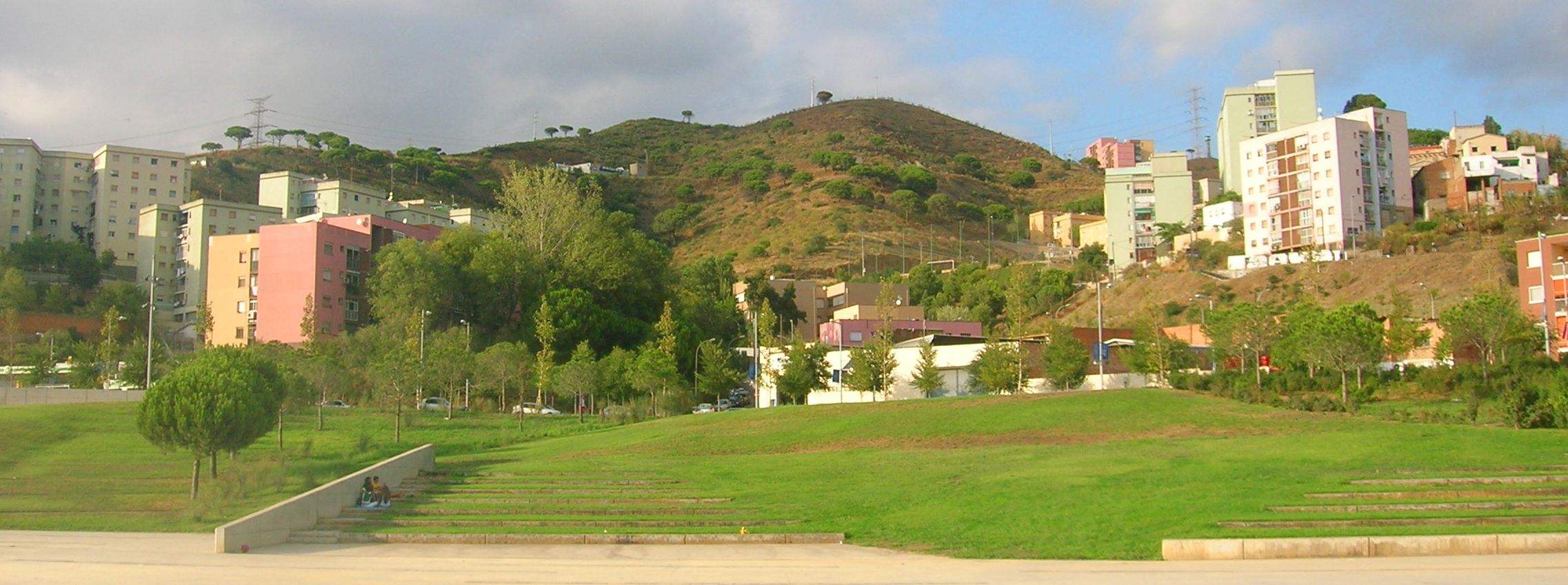 Santa Coloma de Gramenet, province of Barcelona.